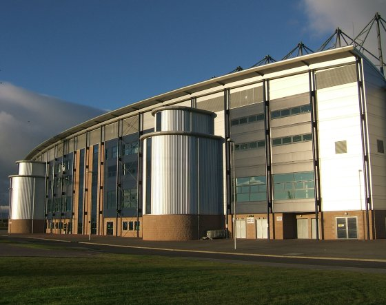 Falkirk Stadium Frontage of the main stand at Falkirk Stadium, home of Falkirk FC (currently in the Scottish Premier League, season 06-07). The stadium has also been used for youth internationals, and Scotland U21 rugby internationals. It replaced the previous town centre stadium, Brockville Park, which is now the site of a supermarket.